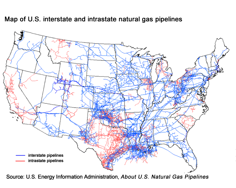 Natural gas pipelines in the United States